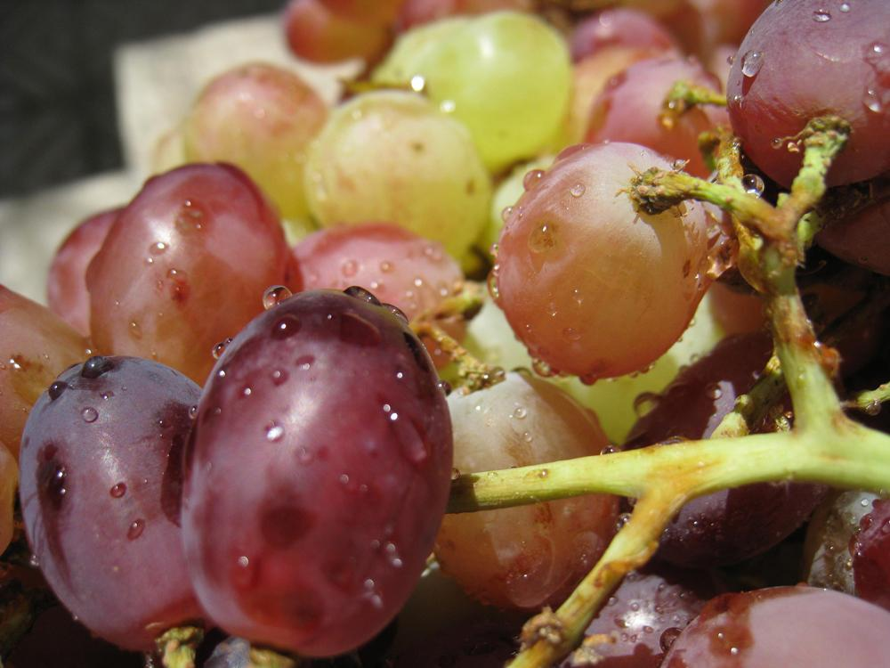 Yaquti Grapes production